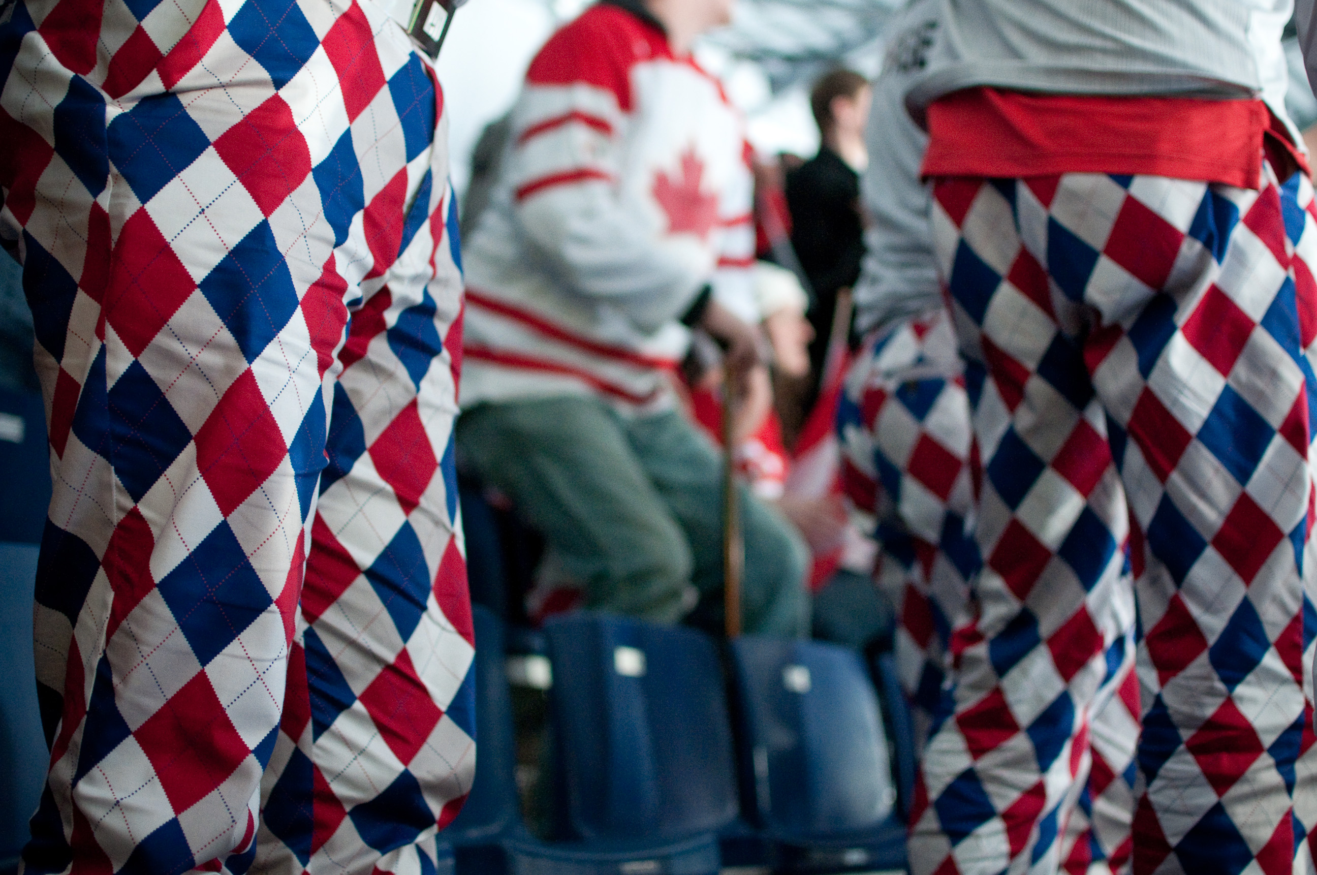 2010 Winter Olympic Games; curling spectators dressed in the same outfit as the Norwegian curling team; the pants, from Loudmouth Golf, have a red, white and blue diamond pattern